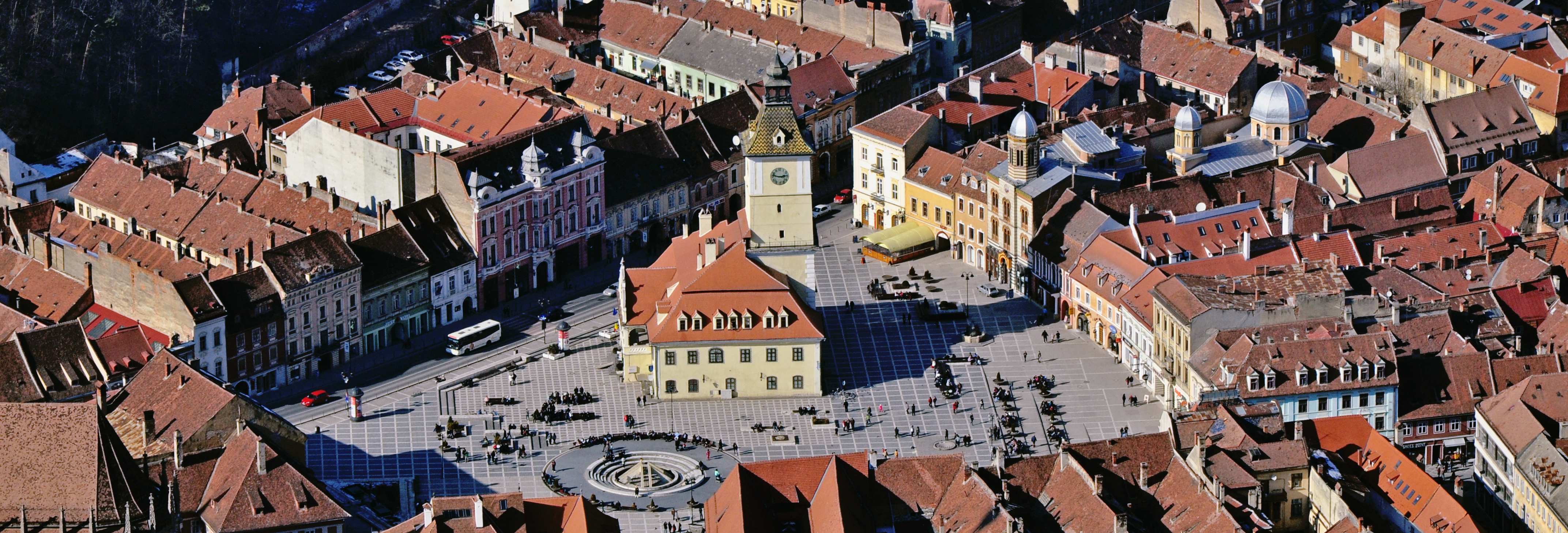 Casa Sfatului in Brașov